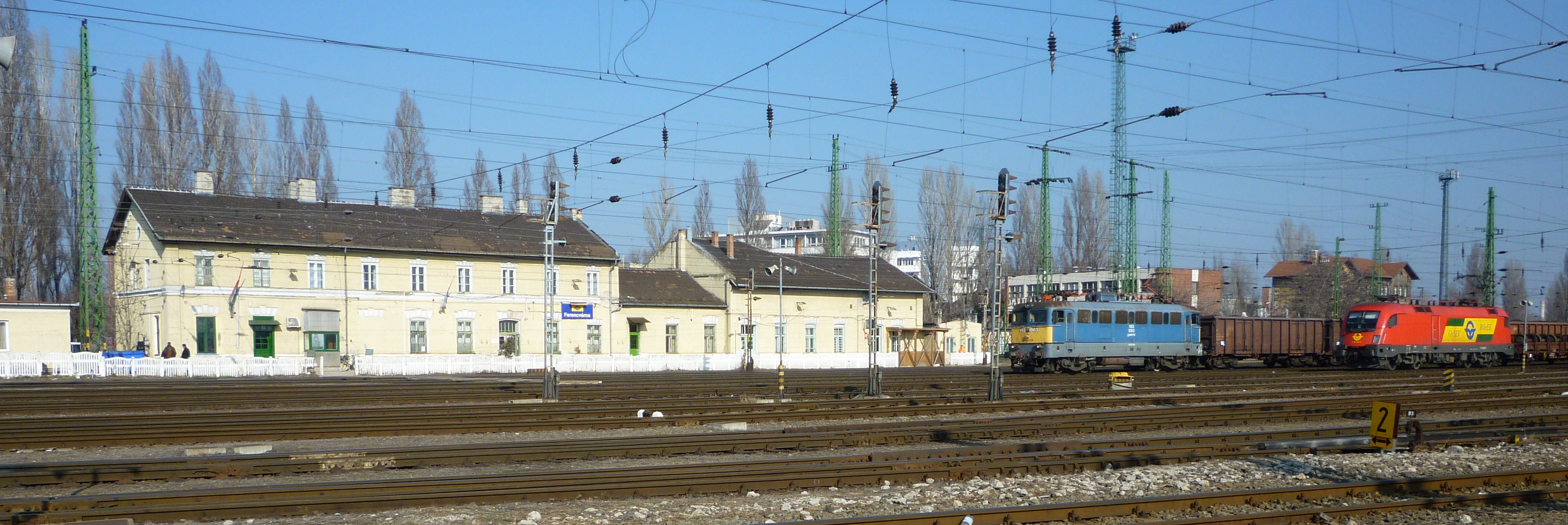 Ferencváros railway station (Budapest, Hungary)